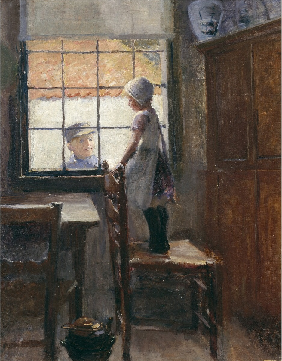 Boy and girl, Rijsoord, Holland